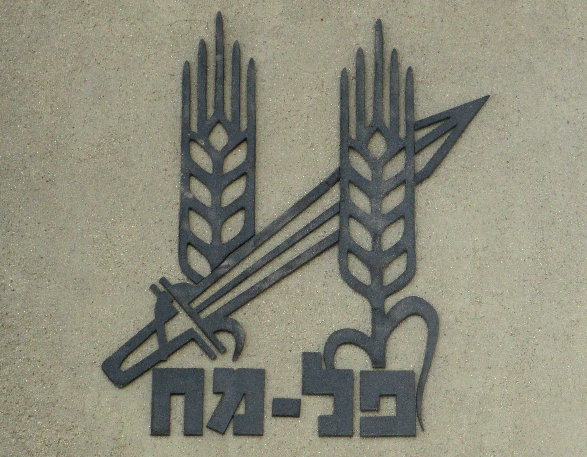 The Palmach emblem in Harel brigade memorial in Radar Hill.